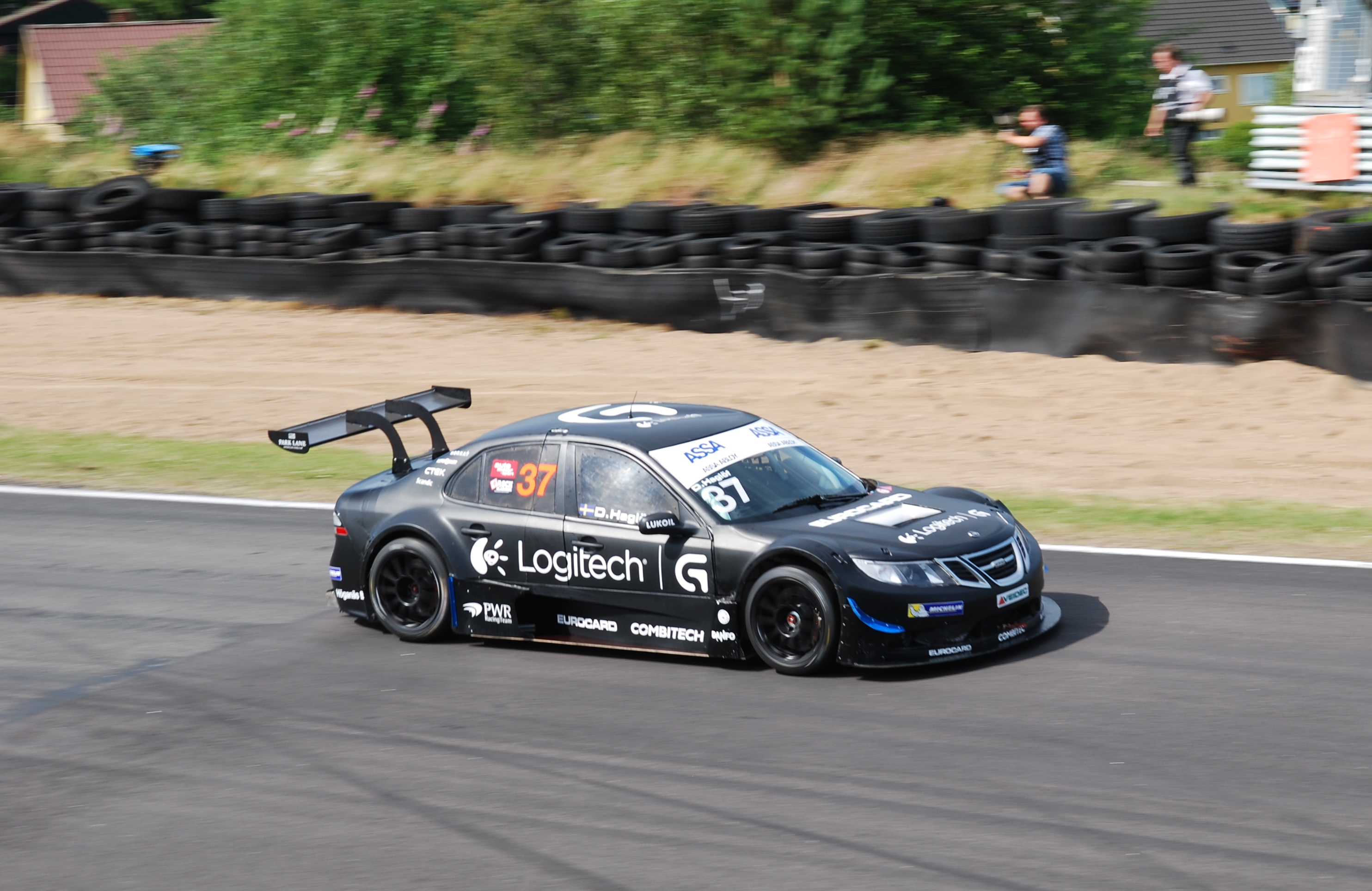 Daniel Haglöf driving for PWR Racing Team at Falkenbergs Motorbana, during the fifth round of the 2015 Scandinavian Touring Car Championship (STCC) season.